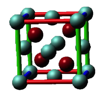 Figure 1: Classic "Diamond" Structure: Face-Centered Cubic with Tetrahedral Holes Filled with Four Atoms